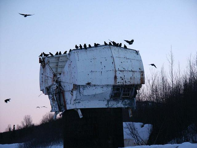 Cold War-era NIKE missile site radar dome with a flock of ravens near Eielson AFB, Alaska